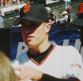 JT Snow (center) self created photograph by BurmaShaver, pd-self 23:49, 17 May 2006 . . BurmaShaver . . 562×424 (49 KB)